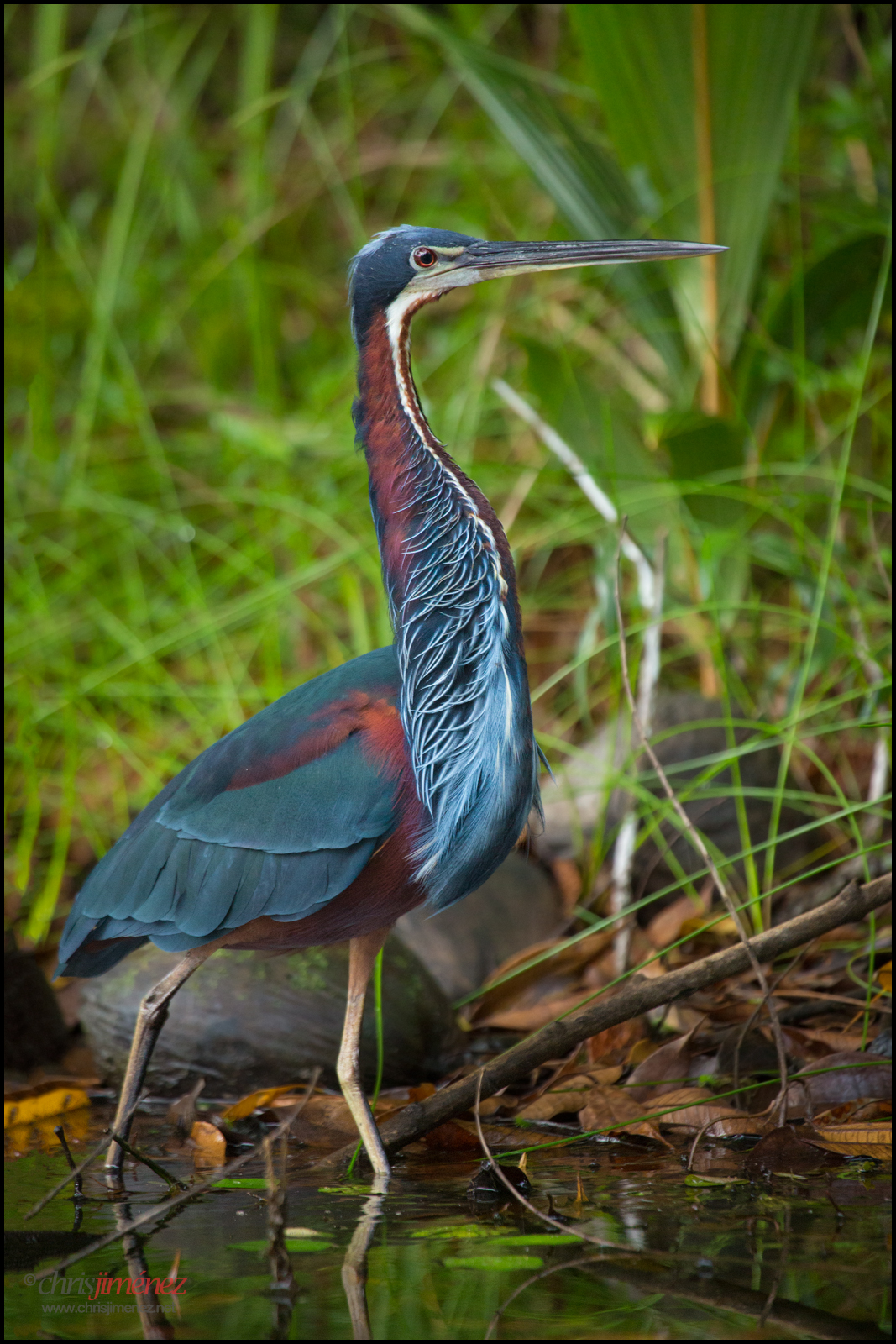 Agami Heron Agamia agami hunting on the morning at the lowlands of Costa Rica